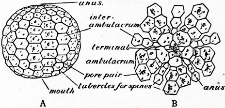 Bothriocidaris globulus. A, from the side; B, the plates around the aboral pole. (After Jaekel.) The short spines which were attached to the tubercles are not drawn.